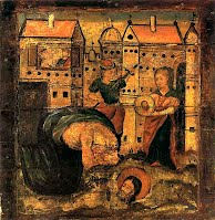 Beheading of St. John the Precursor. Mid-18th c.